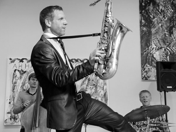 Jan Harbeck in Aarhus / Eske Nørrelykke (b), Martin Andersen (d).